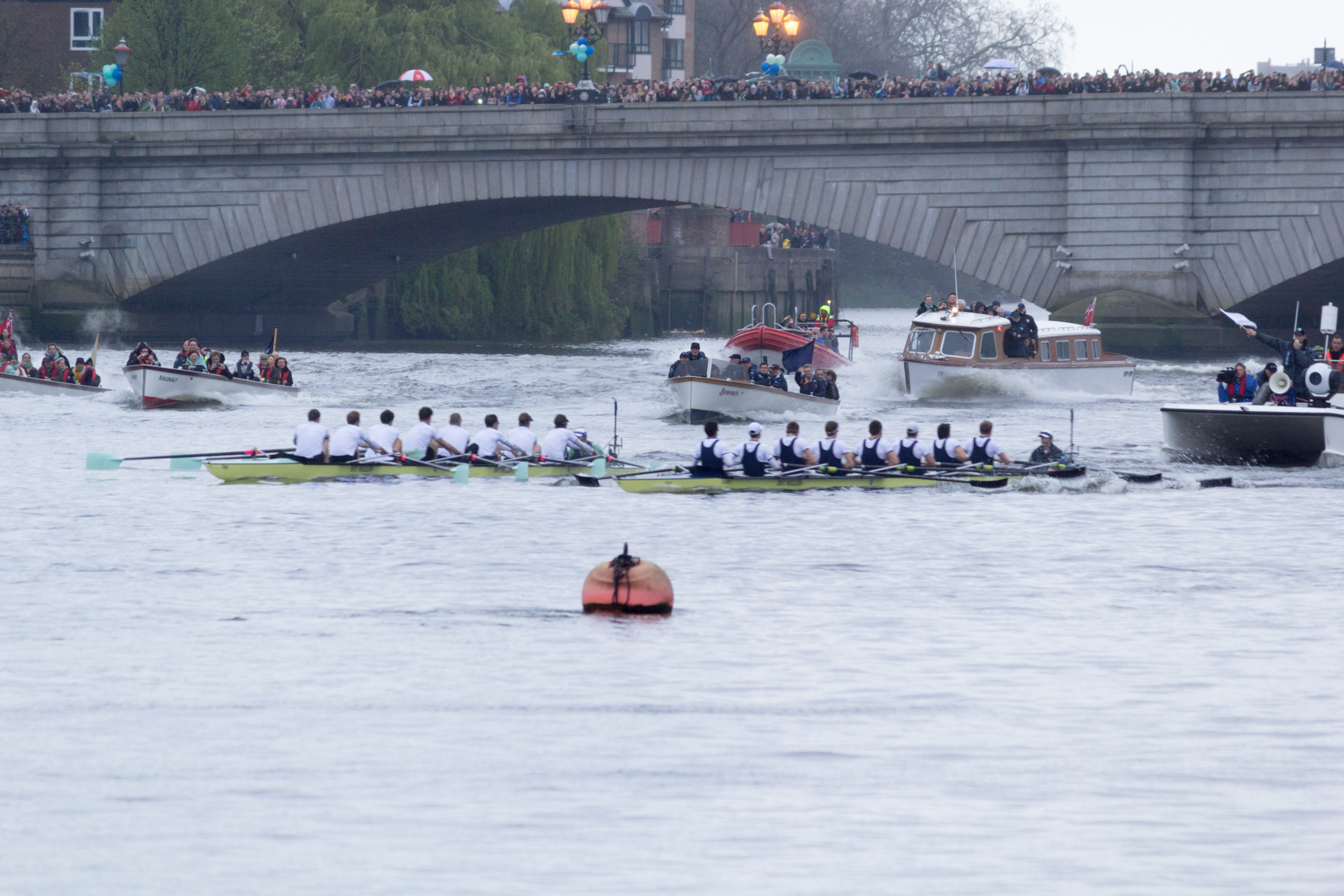 The BNY Mellon Boat Race 2014 - Main Race.